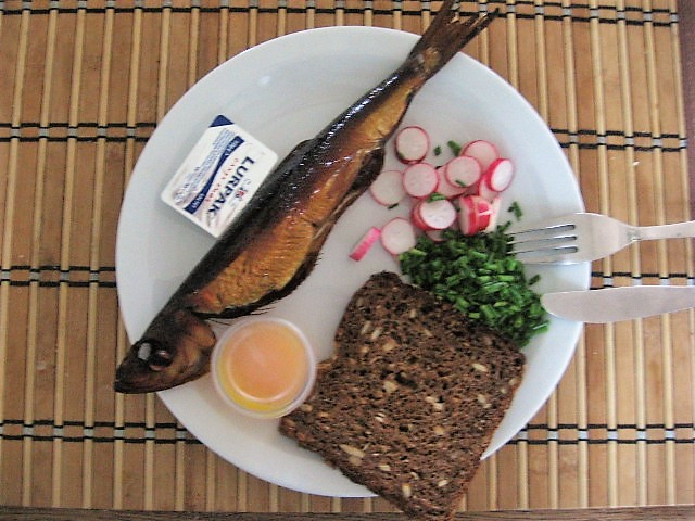 "Sol over Gudhjem" is the kipper with a raw yolk and a piece of dark bread. This is the most popular dish on Bornholm.